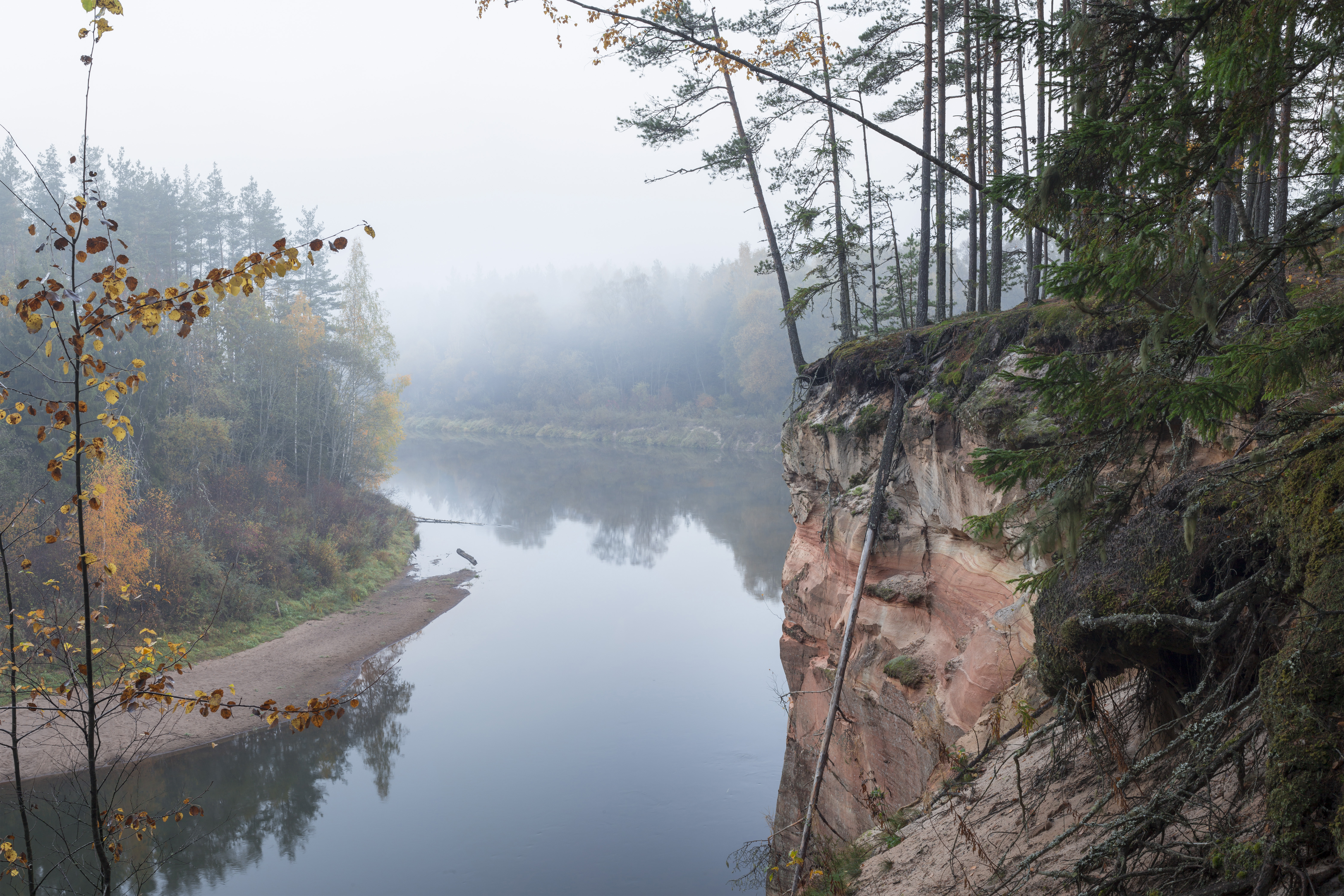 Erglu Cliffs, on the bank of the Gauja river. Sandstone outcrops